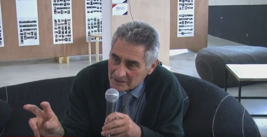 Jean-Christophe Victor in 2013